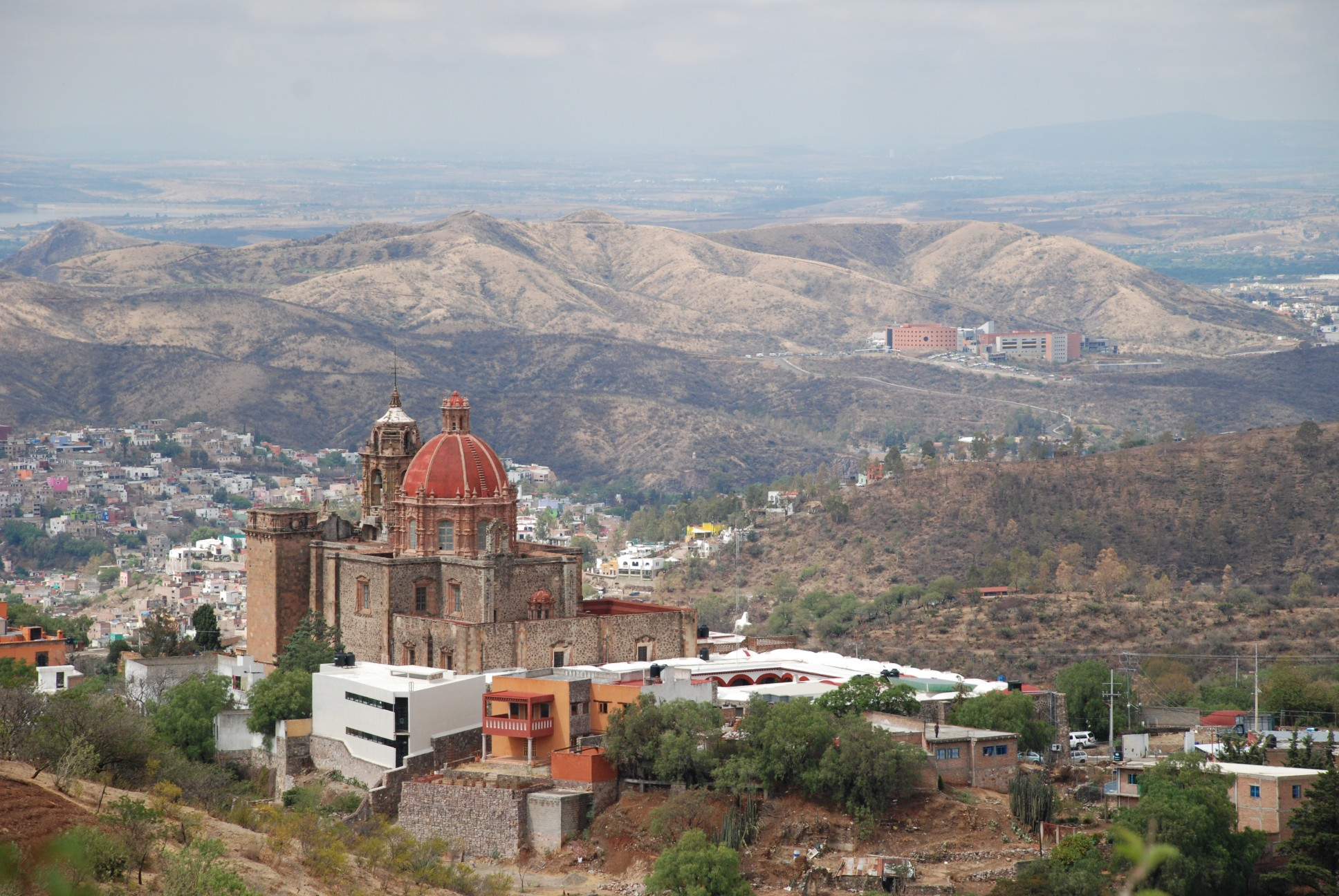 Guanajuato view from beyond the Valenciana church, Guanajuato, Mexico.